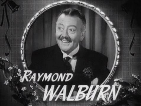 Raymond Walburn in Third Finger, Left Hand (1940) - trailer (cropped screenshot)